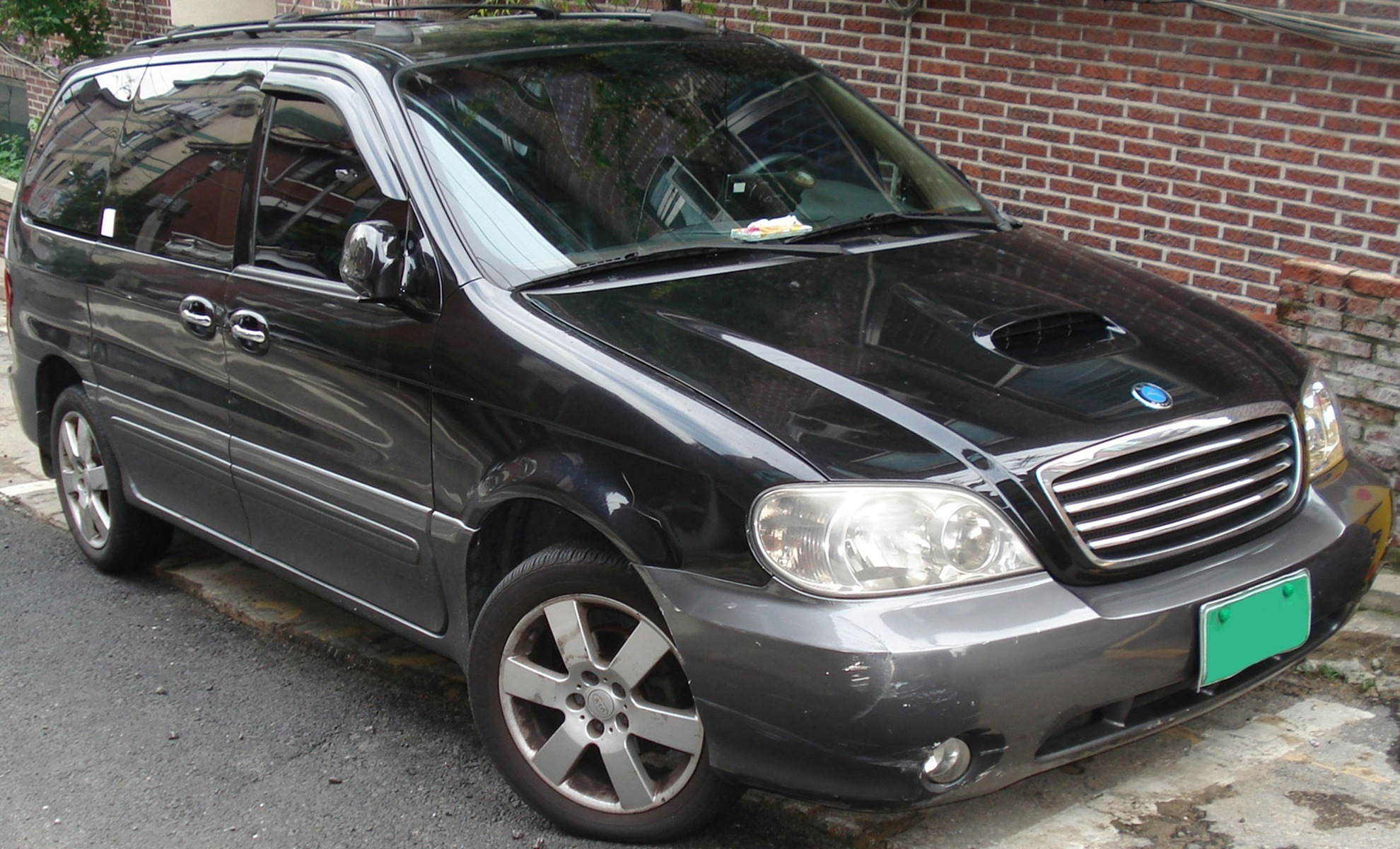 Kia Carnival Ⅱ